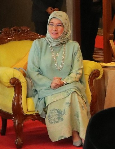 Her Majesty Tunku Azizah Aminah Maimunah Iskandariah, The Raja Permaisuri Agong of Malaysia at Pahang English Teaching Assistant (ETA) Showcase on 14 October 2019